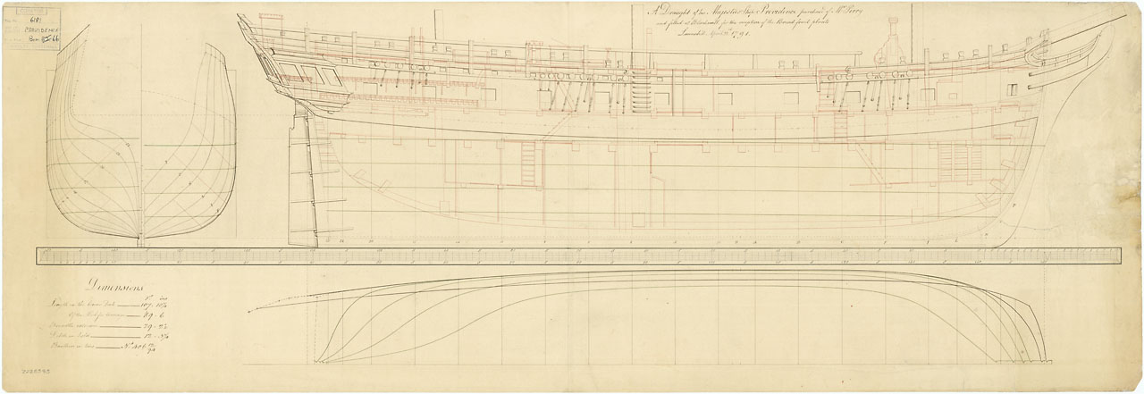 PROVIDENCE 1791 lines & profile